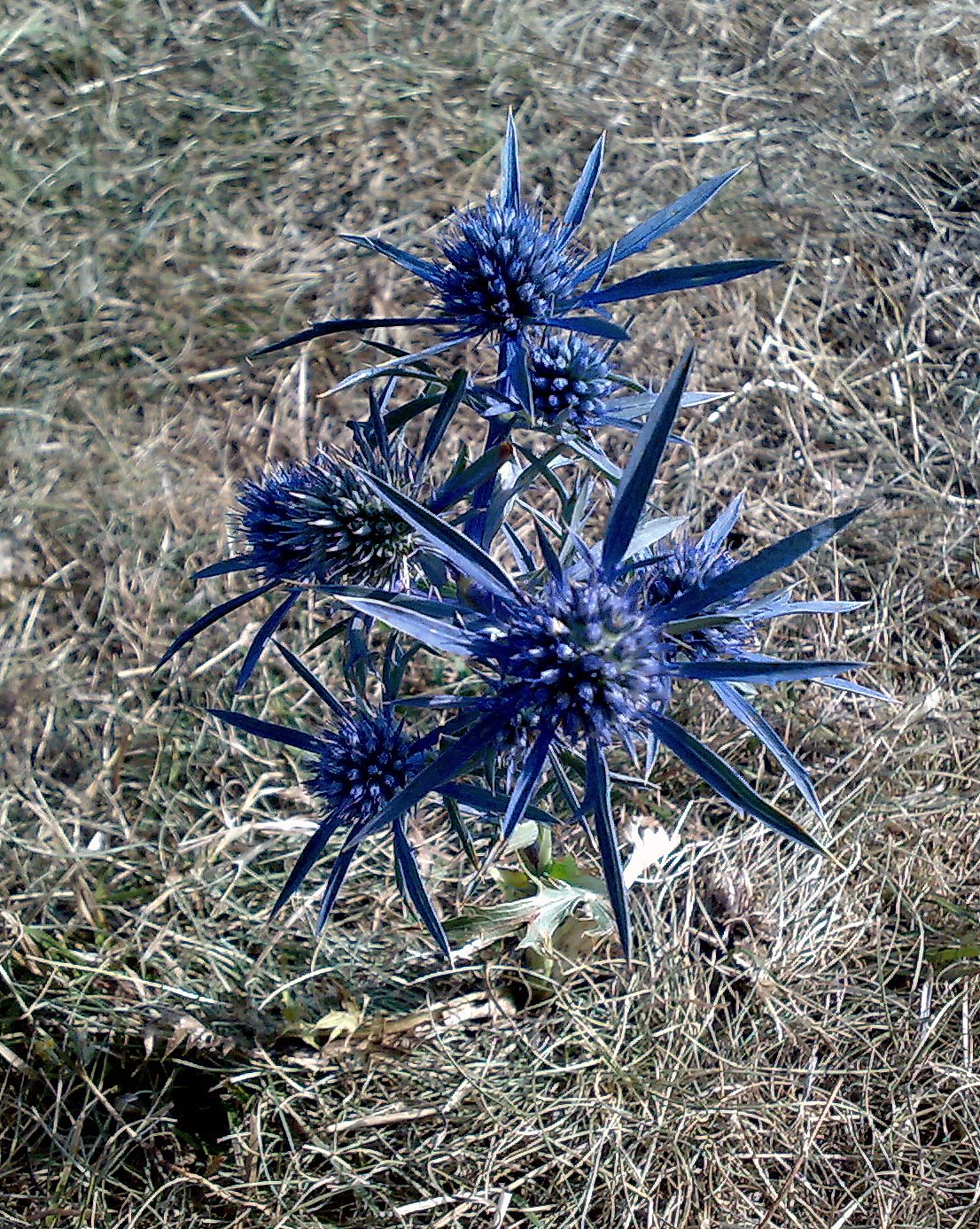 Eryngium amethystinum near the Bosnia & Montenegro border;Montenegro, Boričje (43°8'3"N, 18°54'59"E) - Pivska Planina, DurmitorMountains